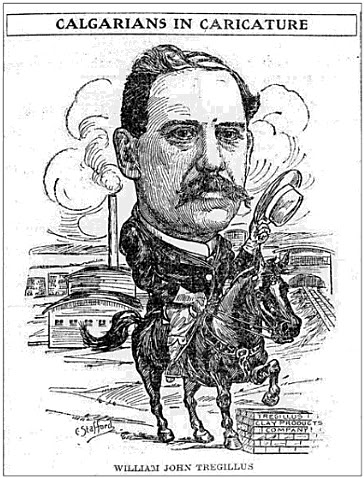 Caricature of William John